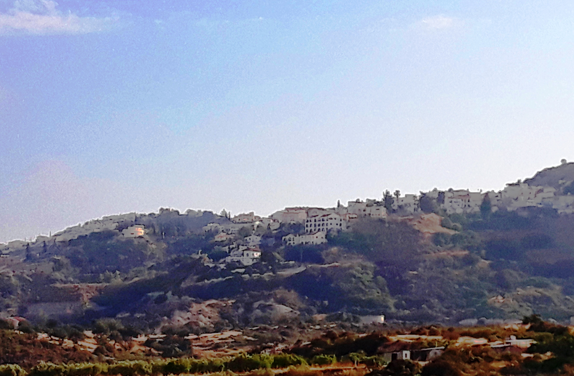 View of Pissouri.